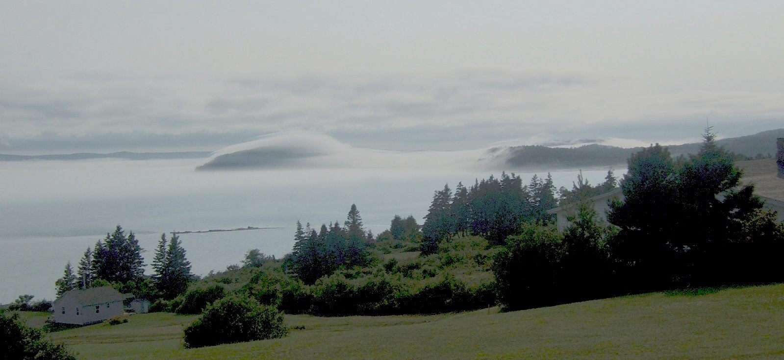 Partridge Island, Nova Scotia looking from the southeast across the mouth of Parrsboro Harbour, Partridge Island, Nova Scotia